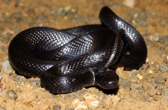 Elaphe persica syn. Zamenis persicus in Naharkhoran Forest (Gorgan, Golestan, Iran)